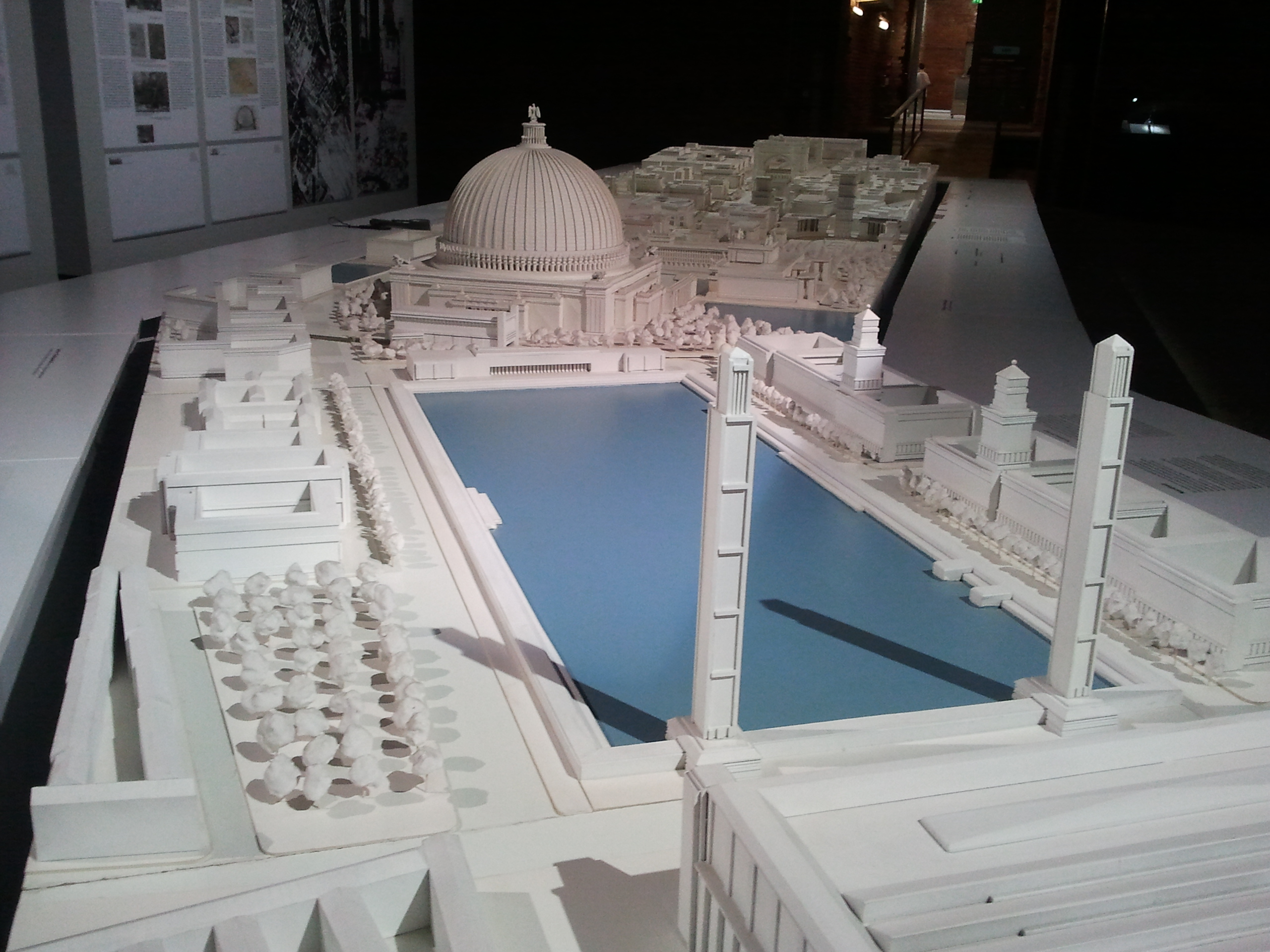 Model of the Große Halle (also called Ruhmeshalle or Volkshalle) with the great basin. The entire architectural model is composed of three parts resp. segments: The central part (from the triumphal arch to the Volkshalle) was built for the 2004 movie Downfall (Oliver Hirschbiegel) and is not a fully accurate realization of the Generalbauinspektor's plan (including a shortening of the Arch-Volkshalle section). For the 2005 movie "Speer und Er" (Heinrich Breloer) the model was expanded with the significantly more precise southern and northern railway stations and its forecourts. Part of the Myth "Germania" and the "Temple City" of Nuremberg exhibition at the Documentation Center in Nuremberg (April 7, 2011 - September 11, 2011).